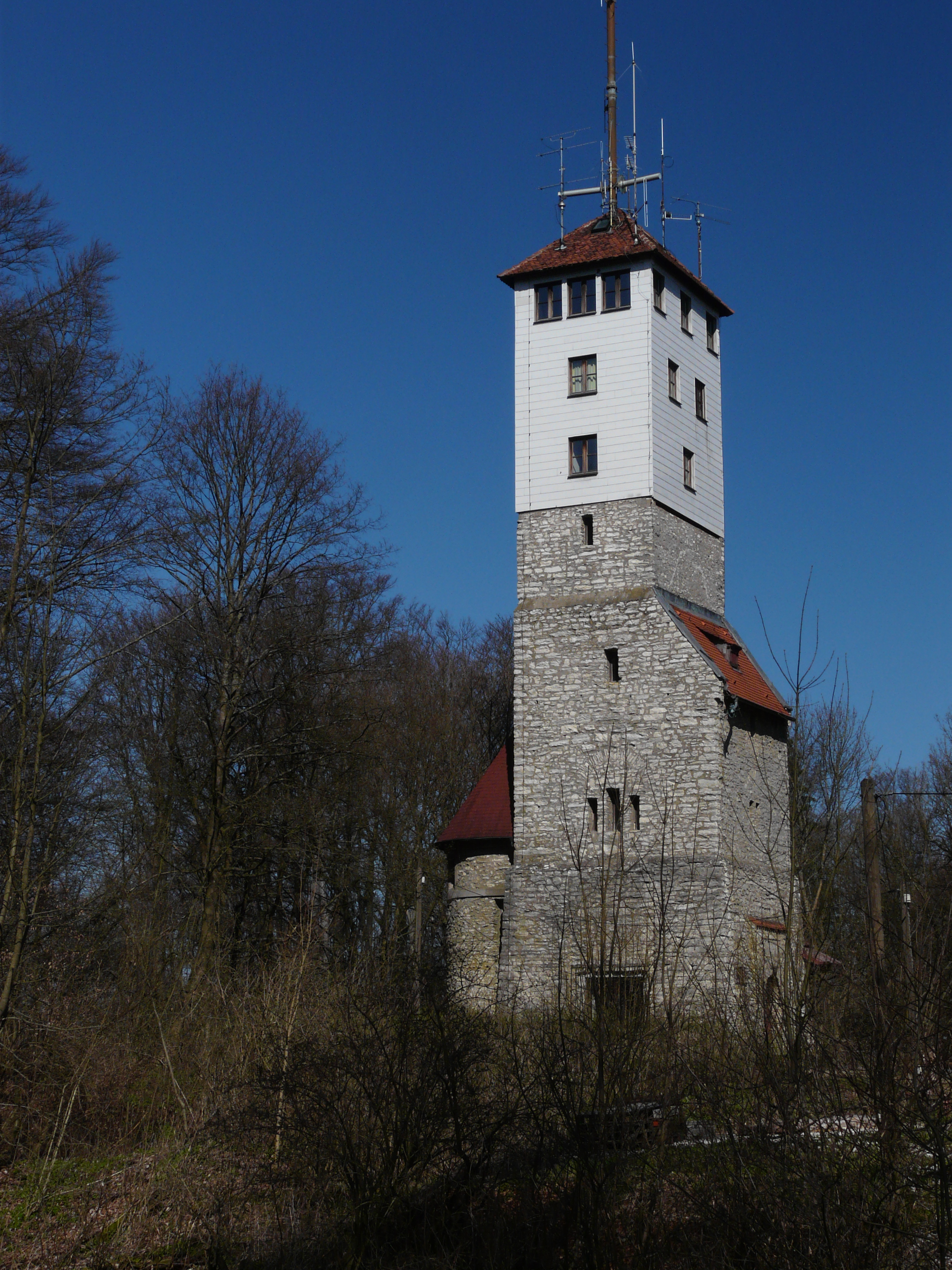 The Moritzberg tower, located at the summit plateau of the Moritzberg hill